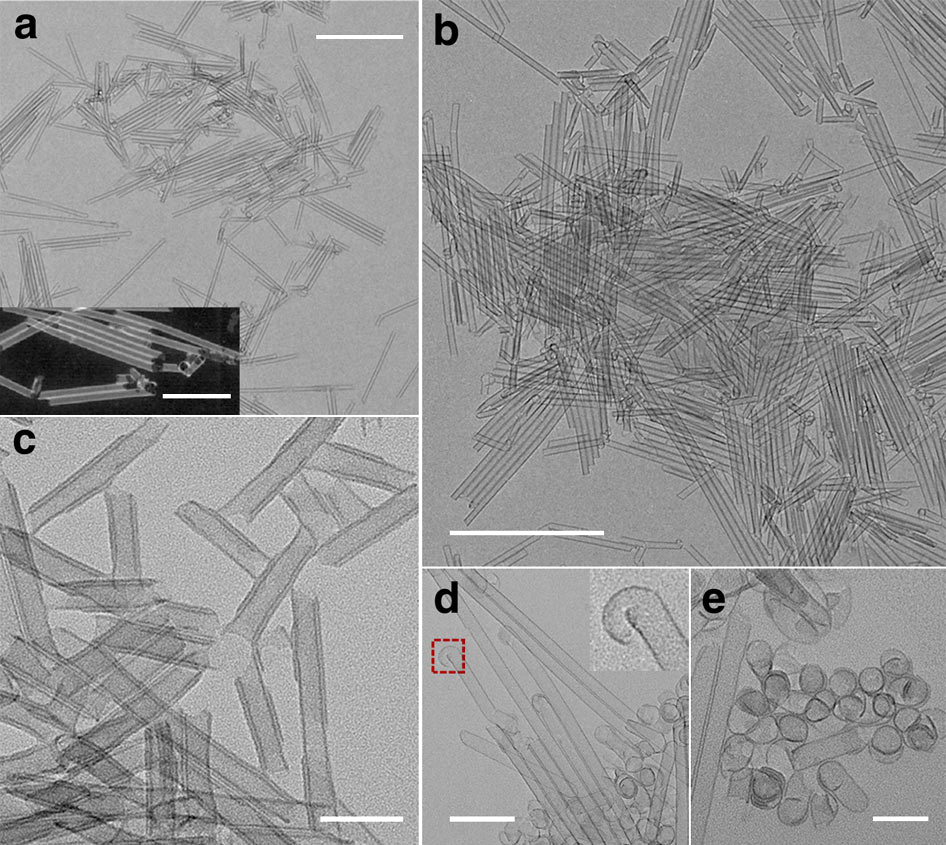 Co(OH)2 nanotubes: (a,b, SWNT; c, double-layer nanotube). Spiral structures and tubes can coexist by altering the reaction conditions (d,e). One end of the tube shows a clear transit from a helical structure to a tubular structure by enlarging the area in the red square of (d). Scale bars: (a) 500 nm, inset, 200 nm; (b) 500 nm; (c,e) 50 nm; (d) 100 nm.